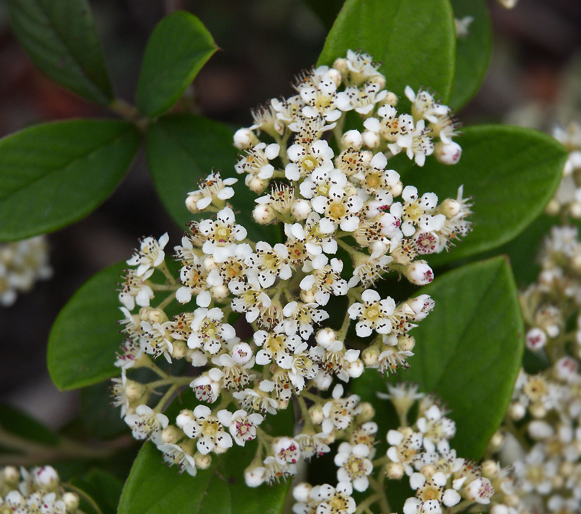 Cotoneaster lacteus Other photos of the same plant